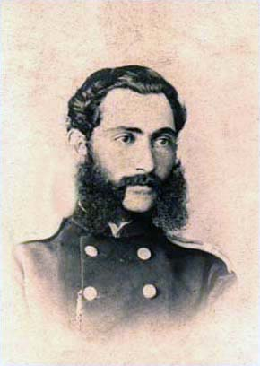 Platon Ioseliani, Georgian scholar (died in 1875)